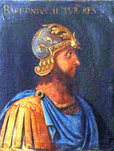 Judge of Giudicato of Logudoro (Torres)